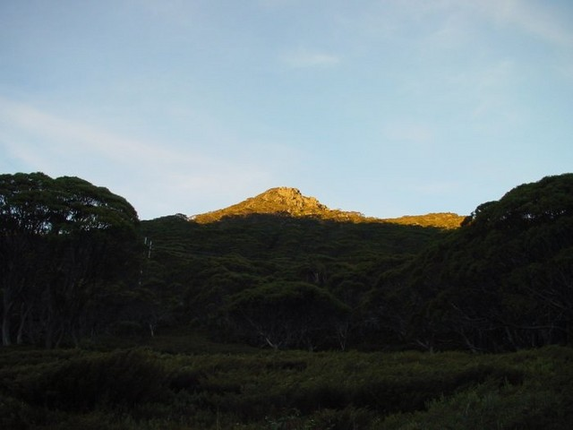 James Lamb Australian Easter Long Weekend 2001. Taken from close to Whites River Hut